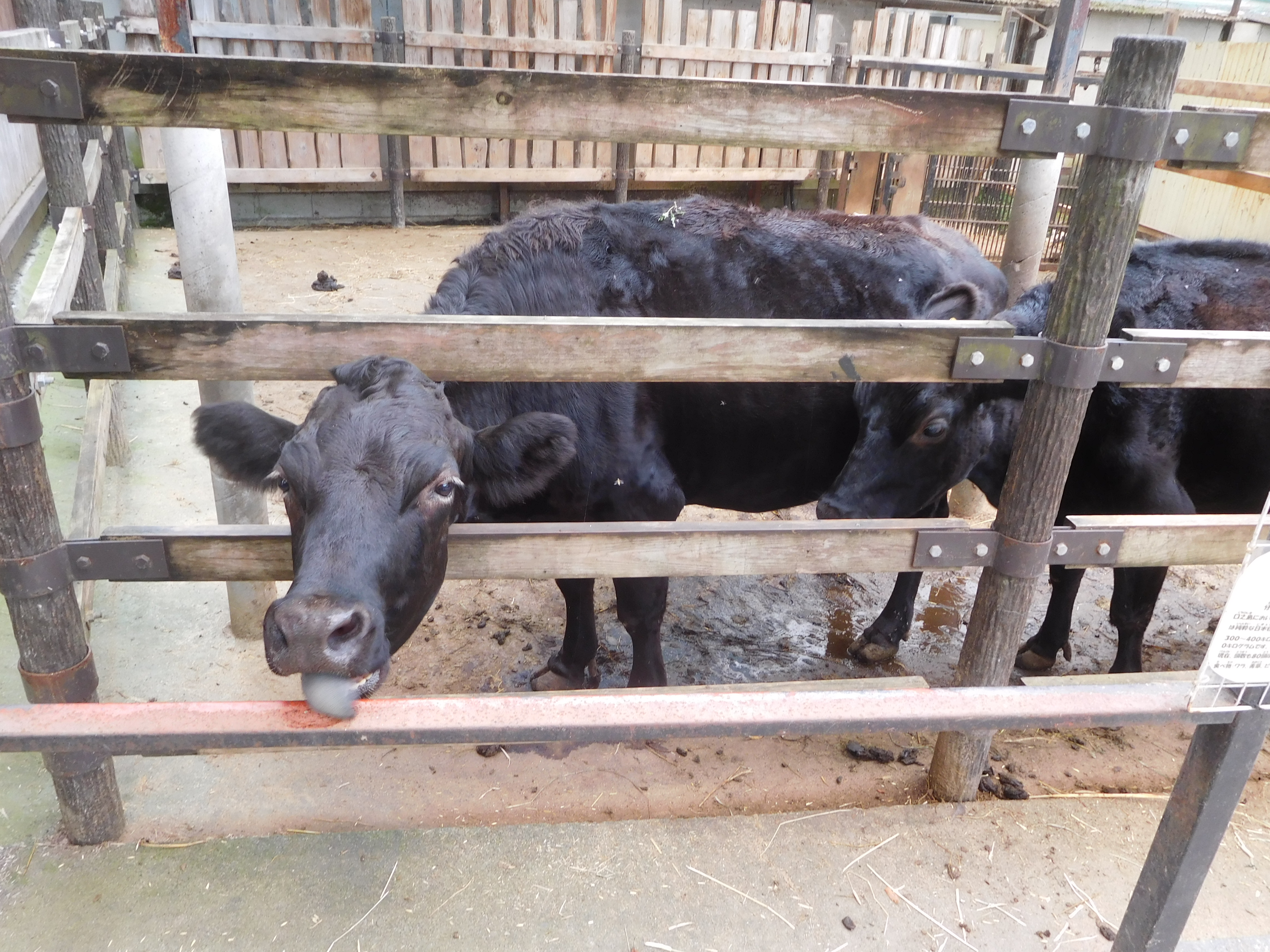 They are Kuchinoshima cows in Utsunomiya zoo, City of Utsunomiya, Tochigi, Japan.